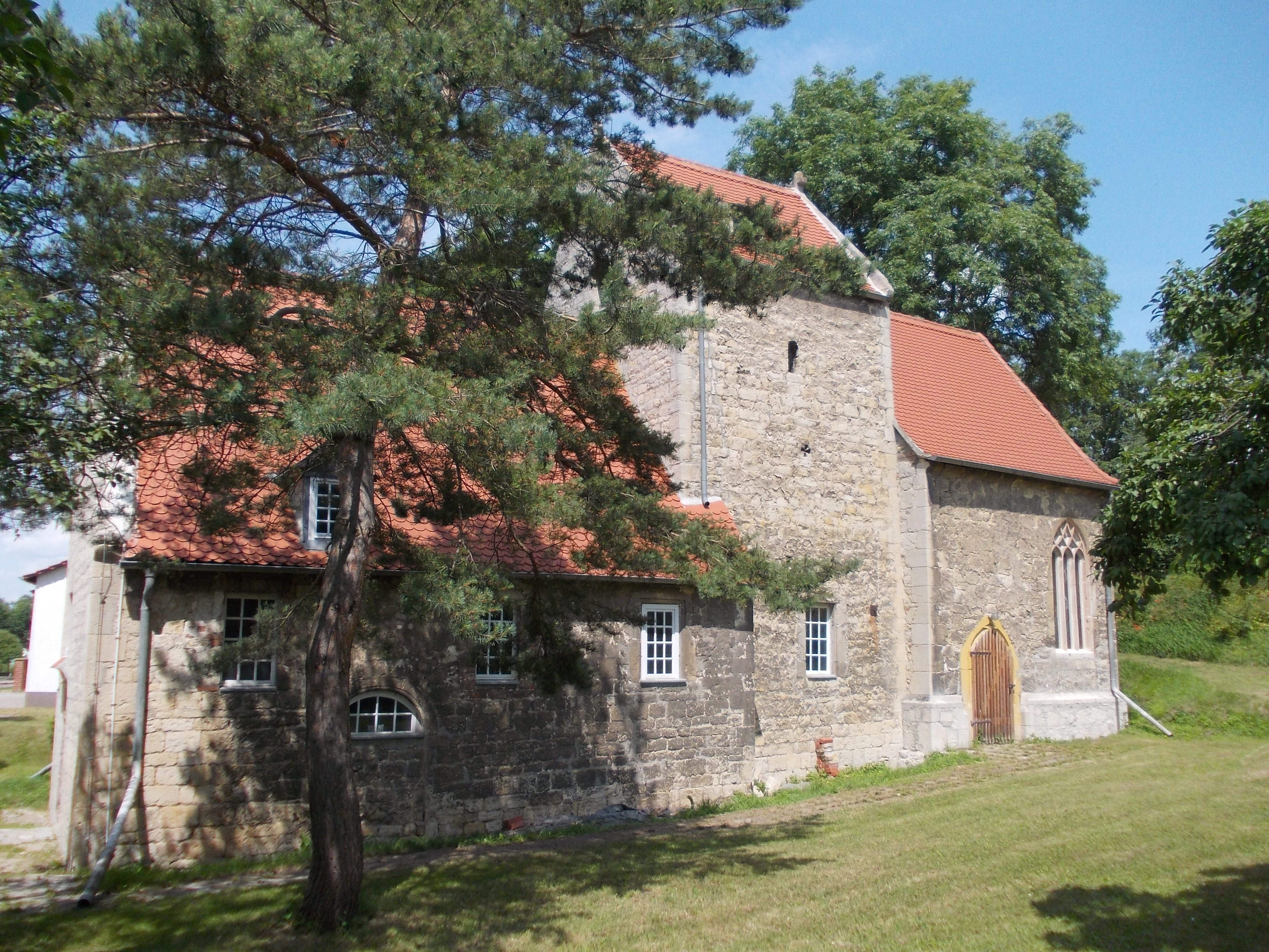 St. Anne's Church in Pettstädt (Weißenfels, district: Burgenlandkreis, Saxony-Anhalt)